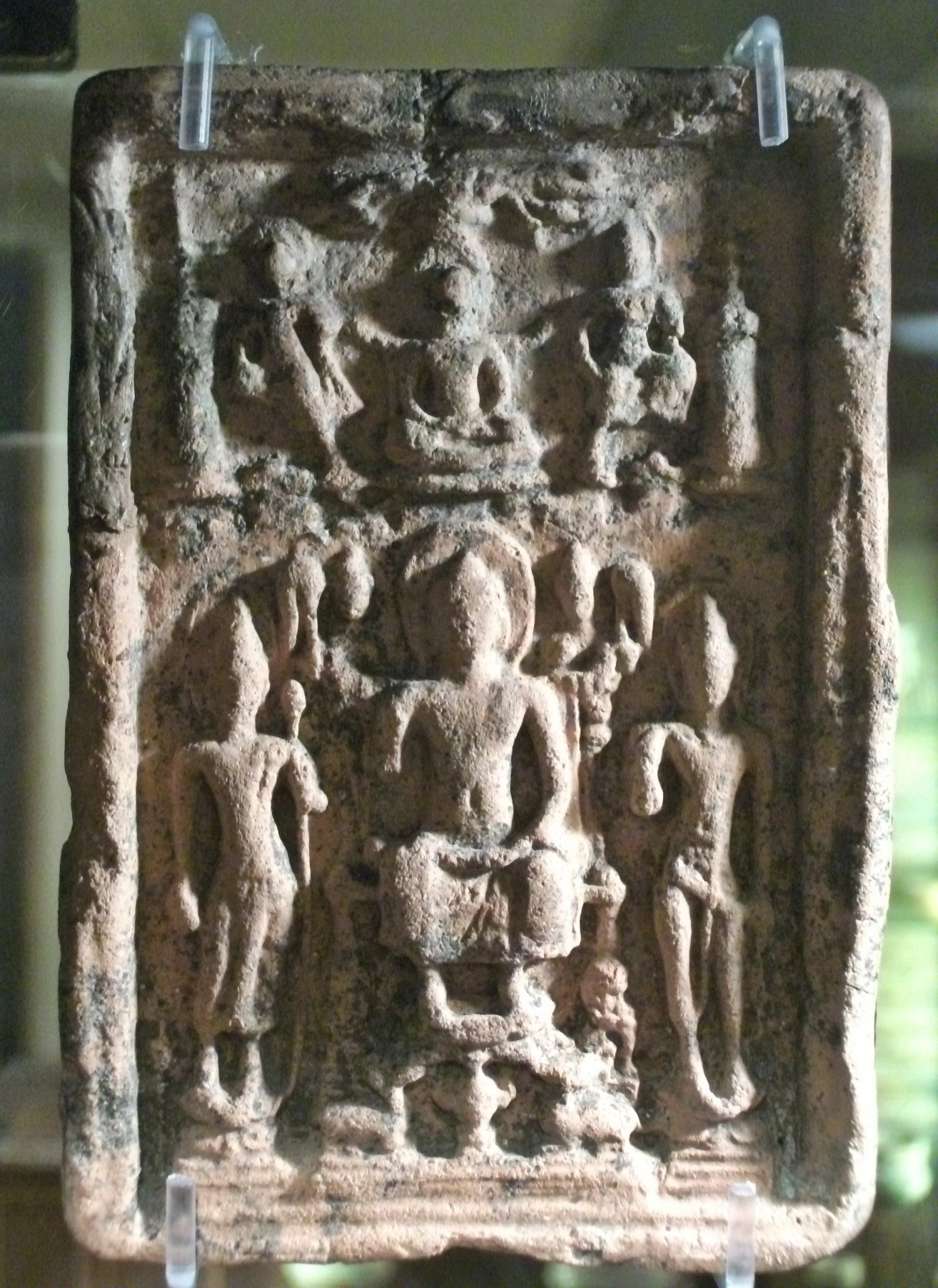 Buddha in Dvaravati period, 9th-10th century CE, Princess Maha Chakri Sirindhorn Anthropology Centre, Bangkok, Thailand.